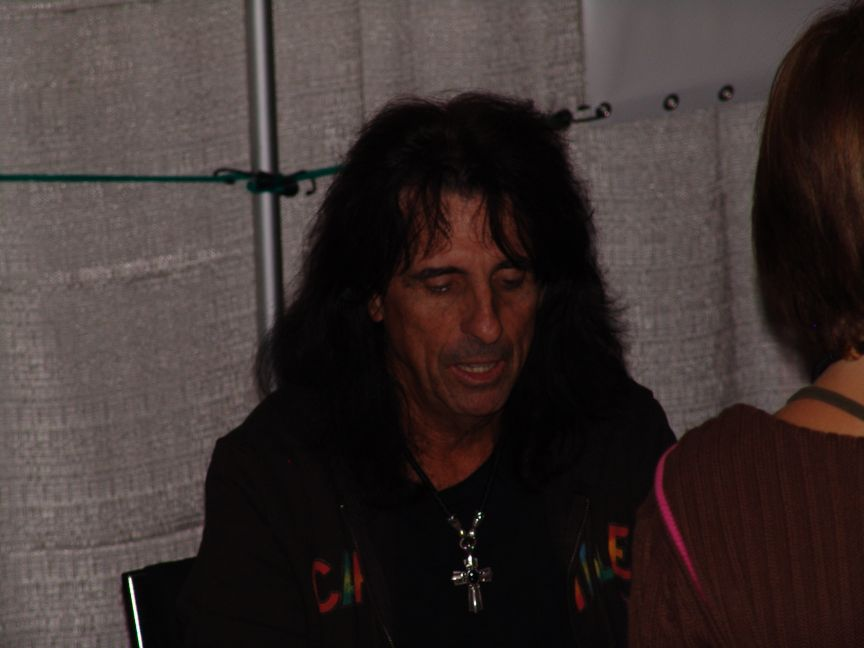 Alice Cooper